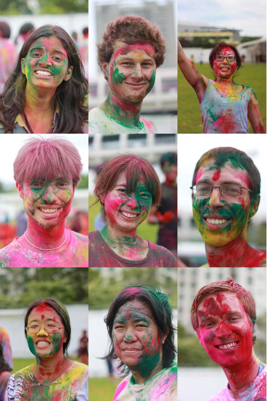 Group of very friendly couchsurfers I got together with to celebrate Holi. Loads of fun.